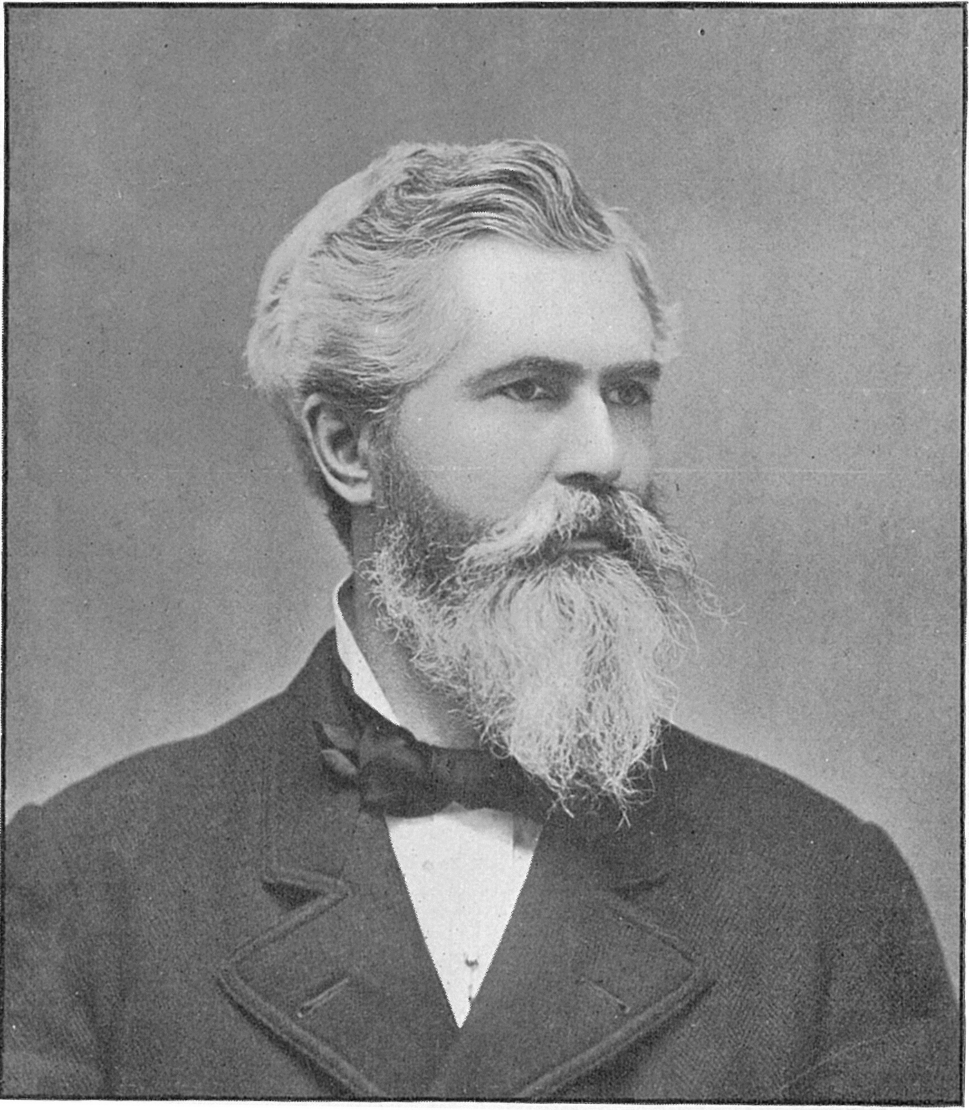 Image of Dr. Washington Wentworth Sheffield